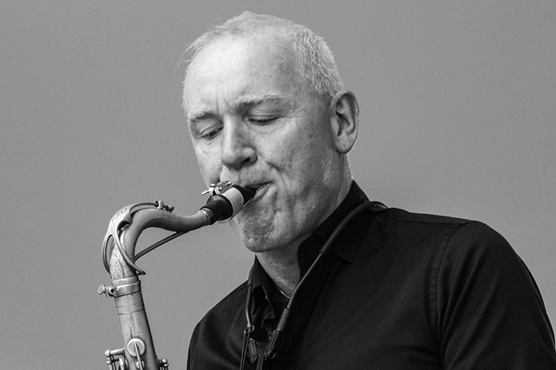 Petter Wettre in Aarhus, Denmark 2017